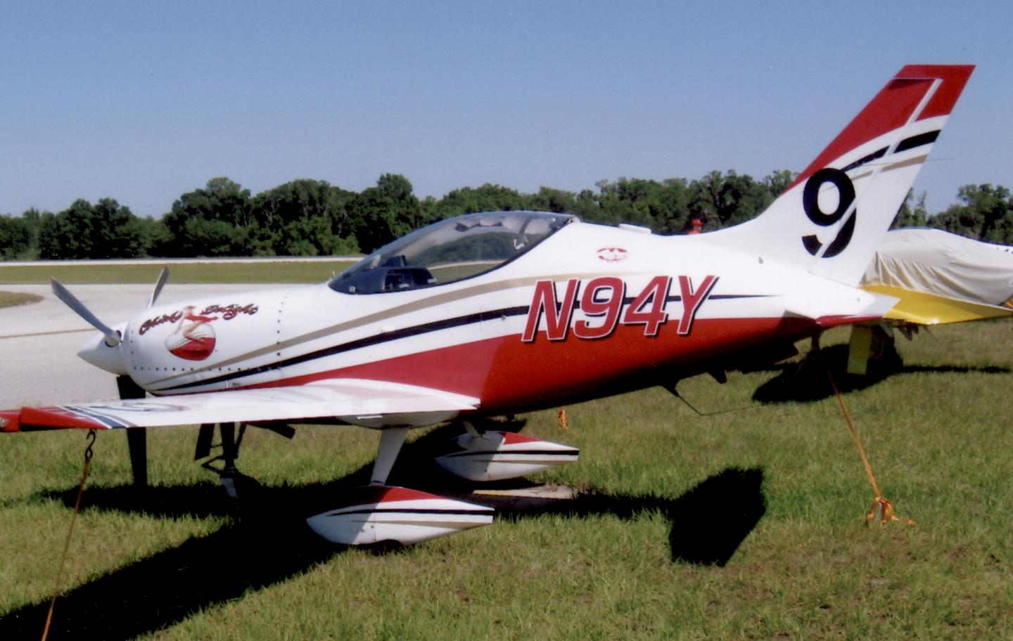 Questair Spirit light sporting aircraft at Lakeland Florida